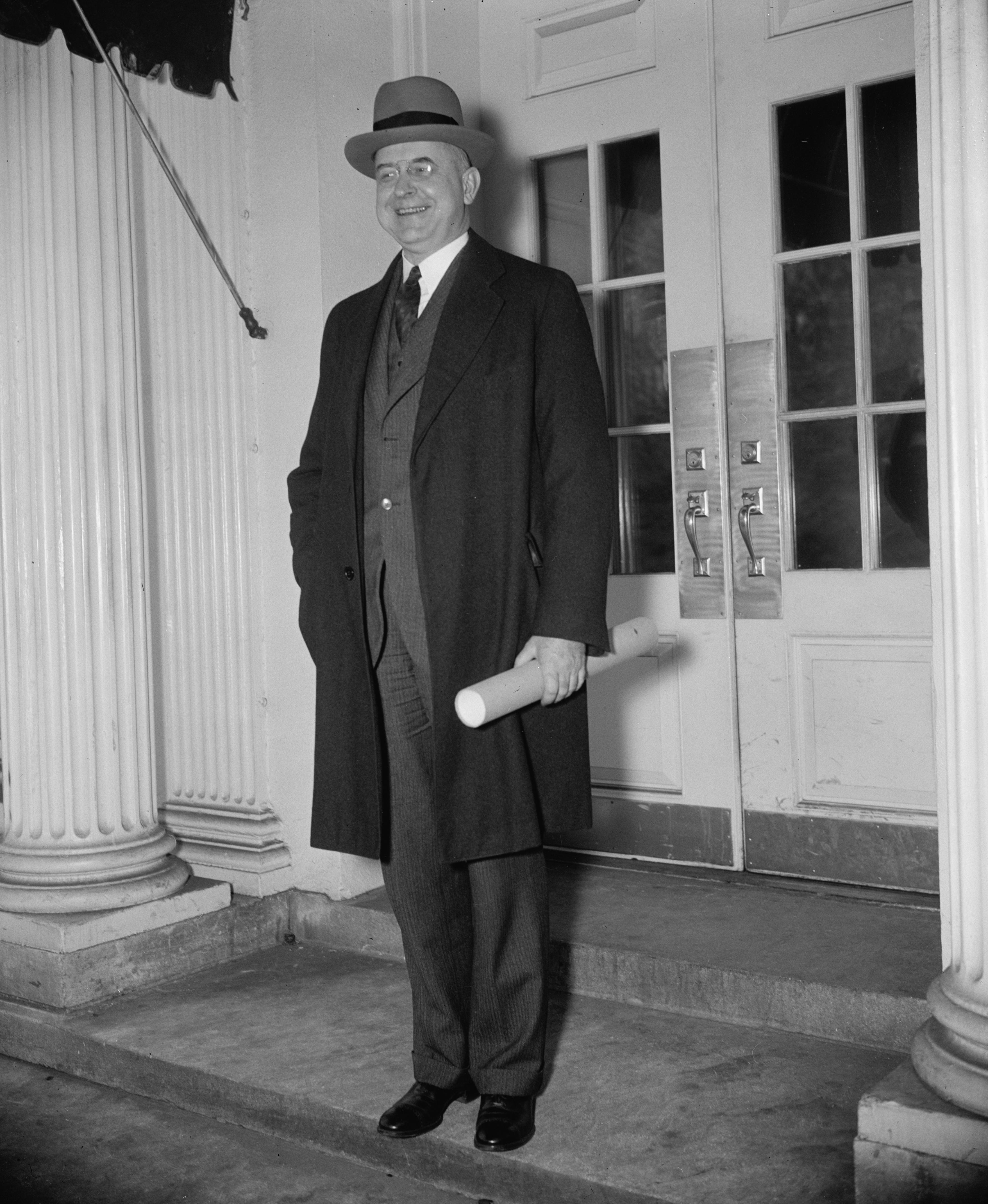 Stanley Reed, photographed as he left the Executive offices of the White House, where President Roosevelt personally handed to him his commission to the Supreme Court